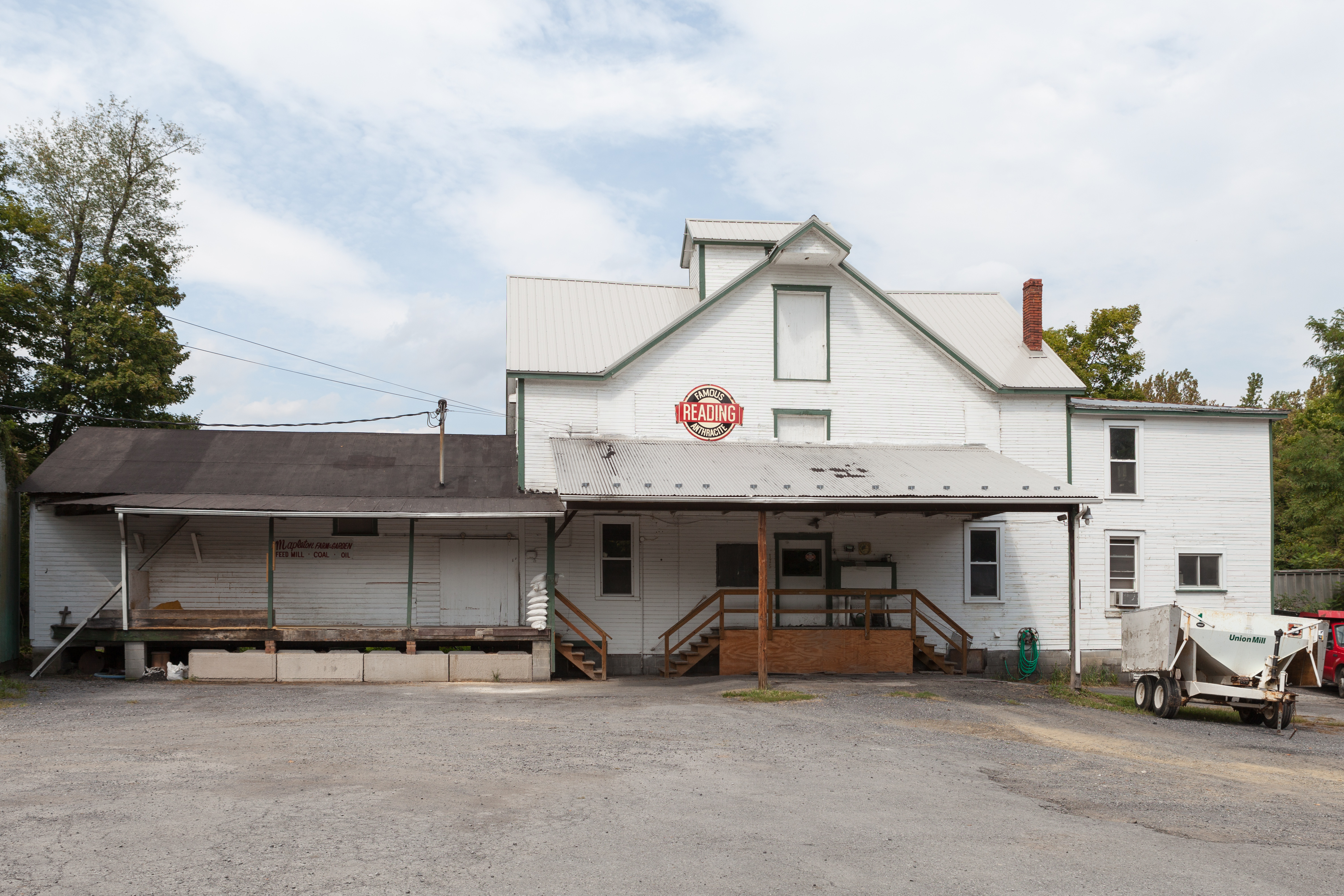 H.O. Andrews Feed Mill, a historic feed mill located at Mapleton in Huntingdon County, Pennsylvania